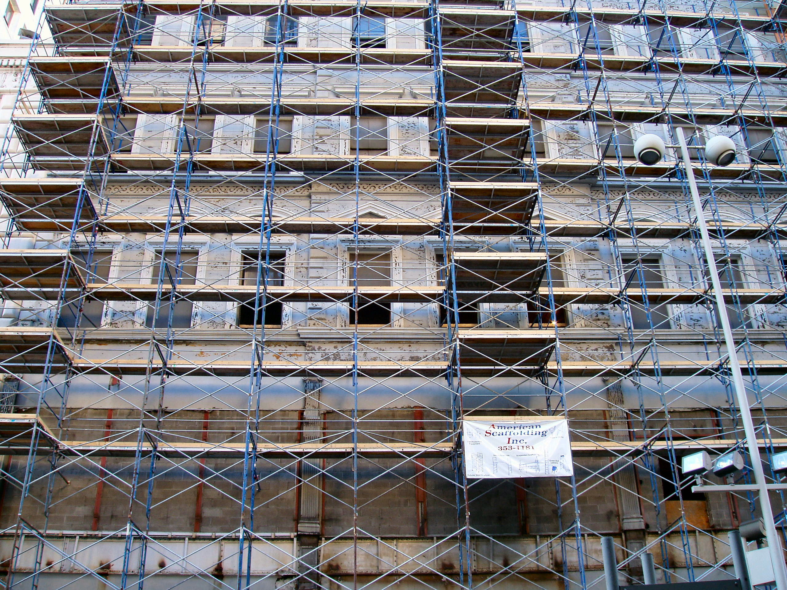 Extensive scaffolding on a building undergoing renovation; 4th Street in downtown Cincinnati, Ohio. Photo shot by Mike Hunt (Tysto), 2005-August-24